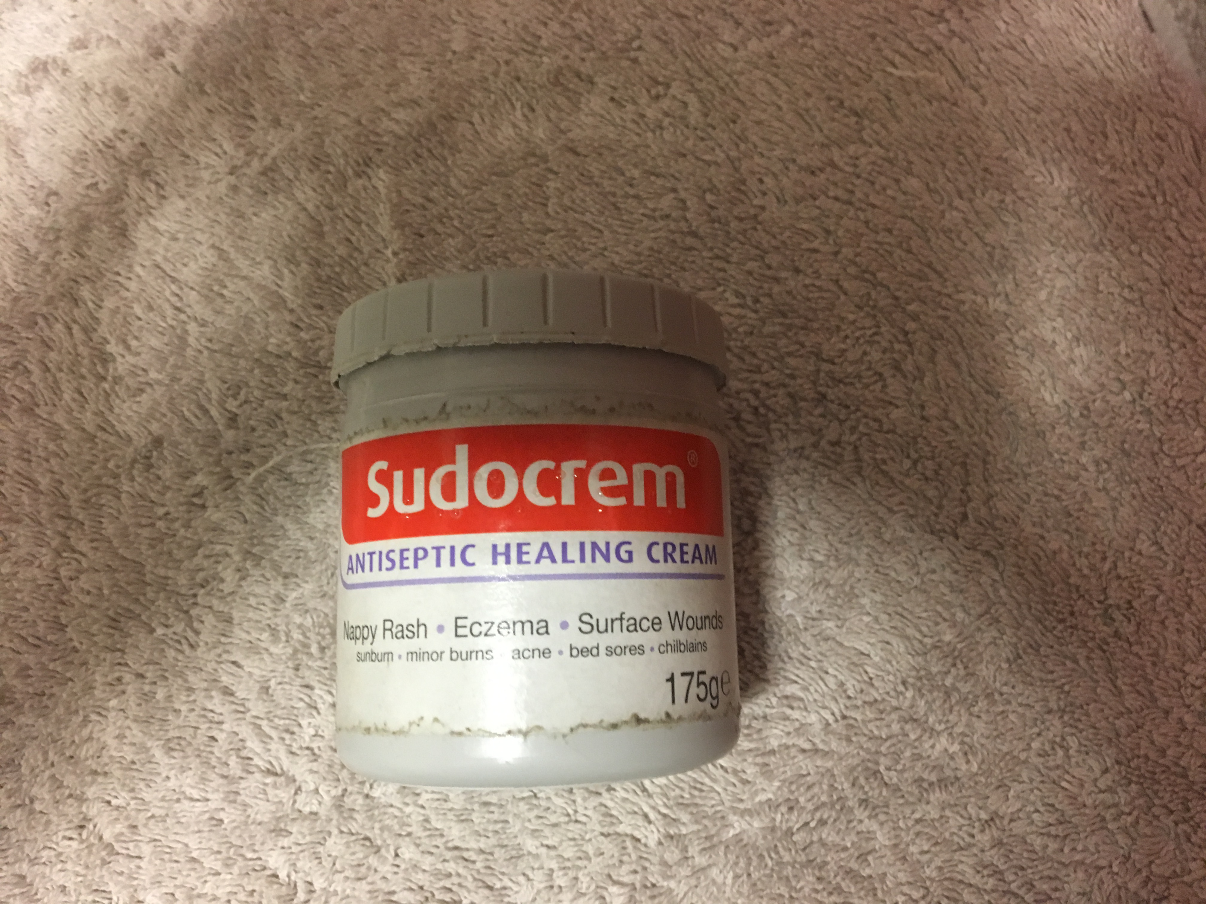 Sudocrem